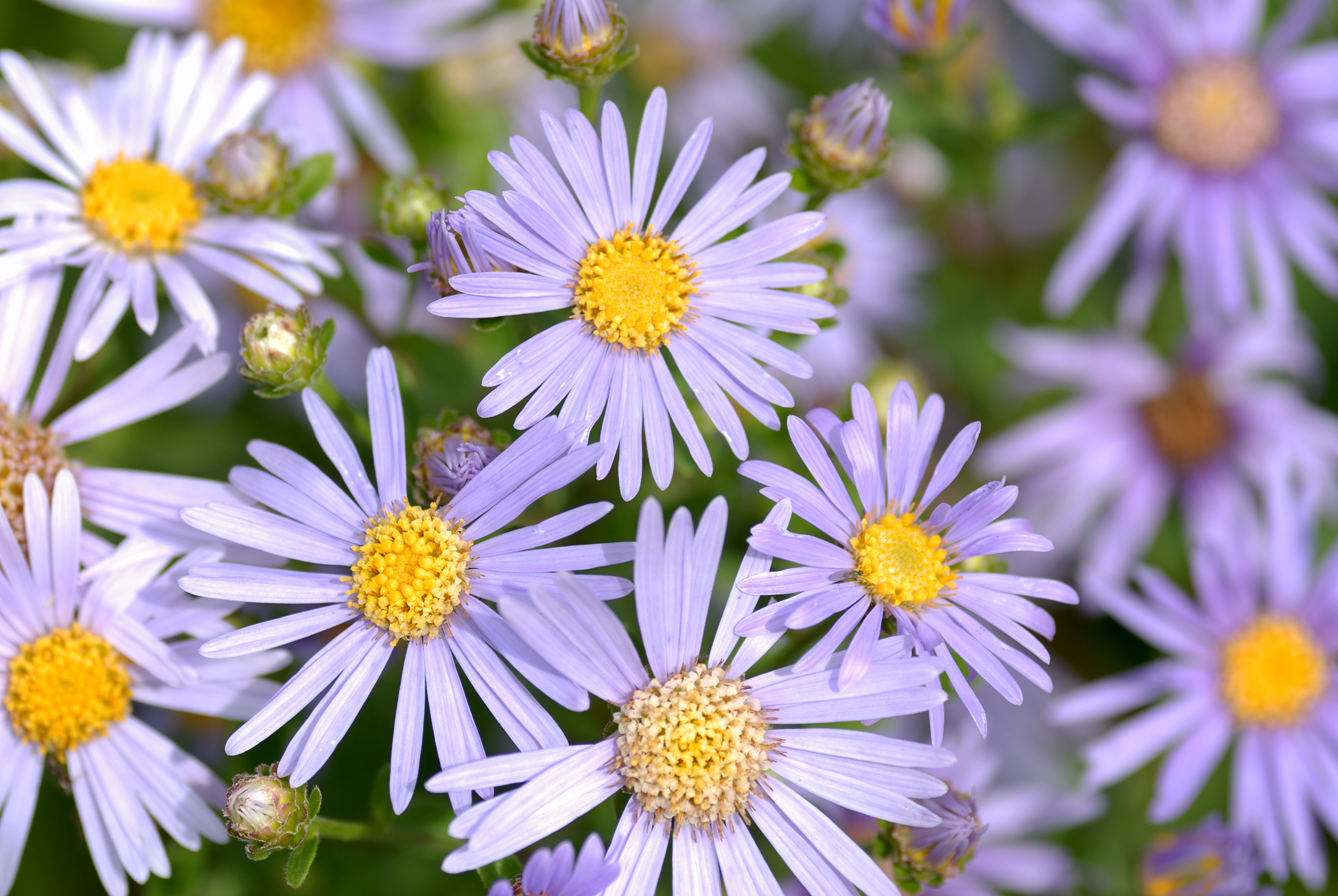 This image shows a European Michaelmas Daisy (Aster amellus)